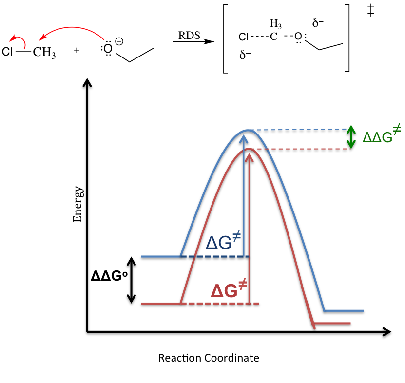 This shows an SN1 mechanism and the solvents effect on the reaction rate.png